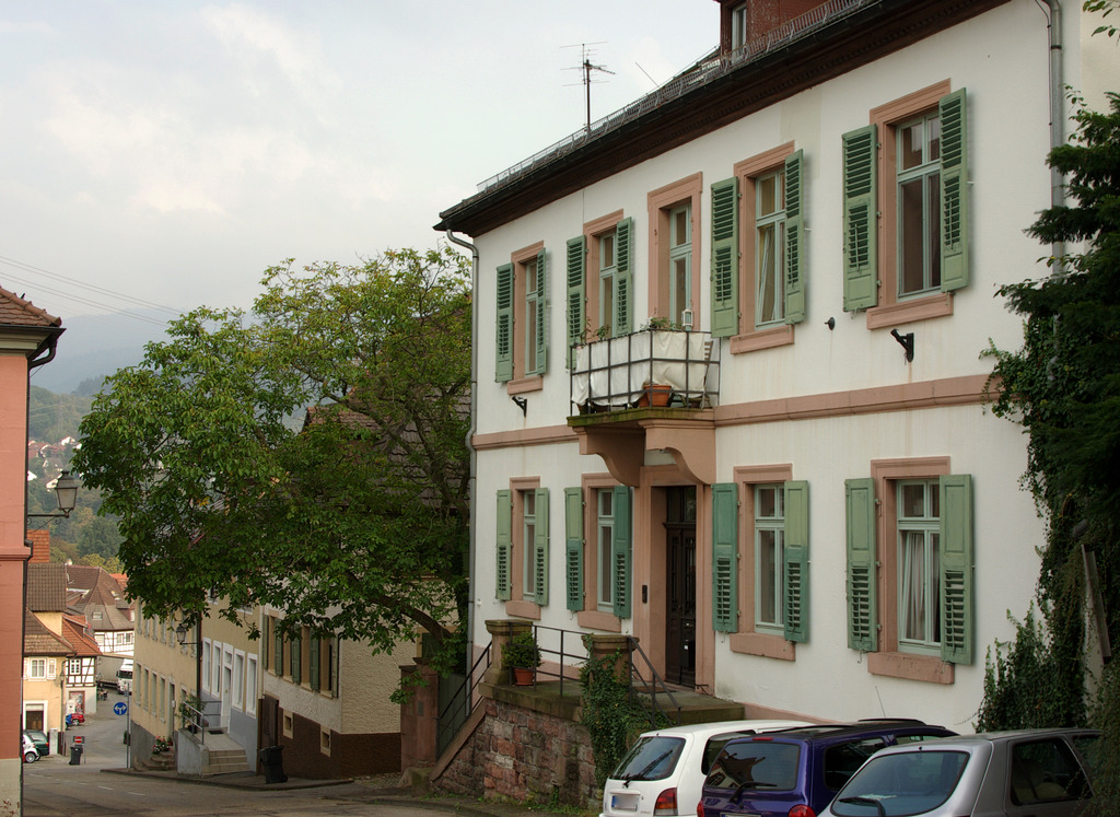 Former forestry office for the Kaltenbronn forest district in Gernsbach